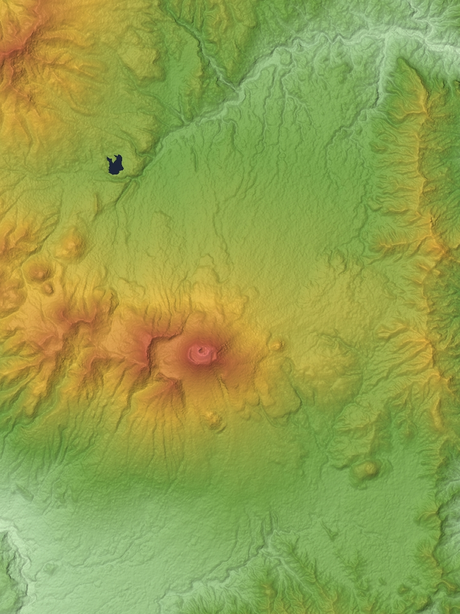 Massif of Asama Volcano (Mount Asama) in the border between Nagano and Gunma Prefectures, Honshu, Japan.